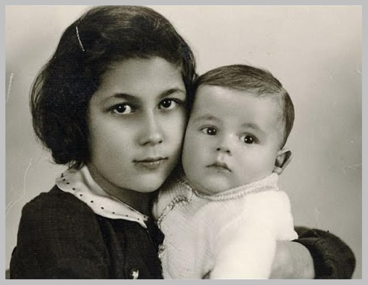 Rutka and Heniuś Laskier a polish jewish teens. They was gazed by the nazis in 1943 (KL Auschwitz-Birkenau). This photo was taken in Będzin (Poland) 1938.